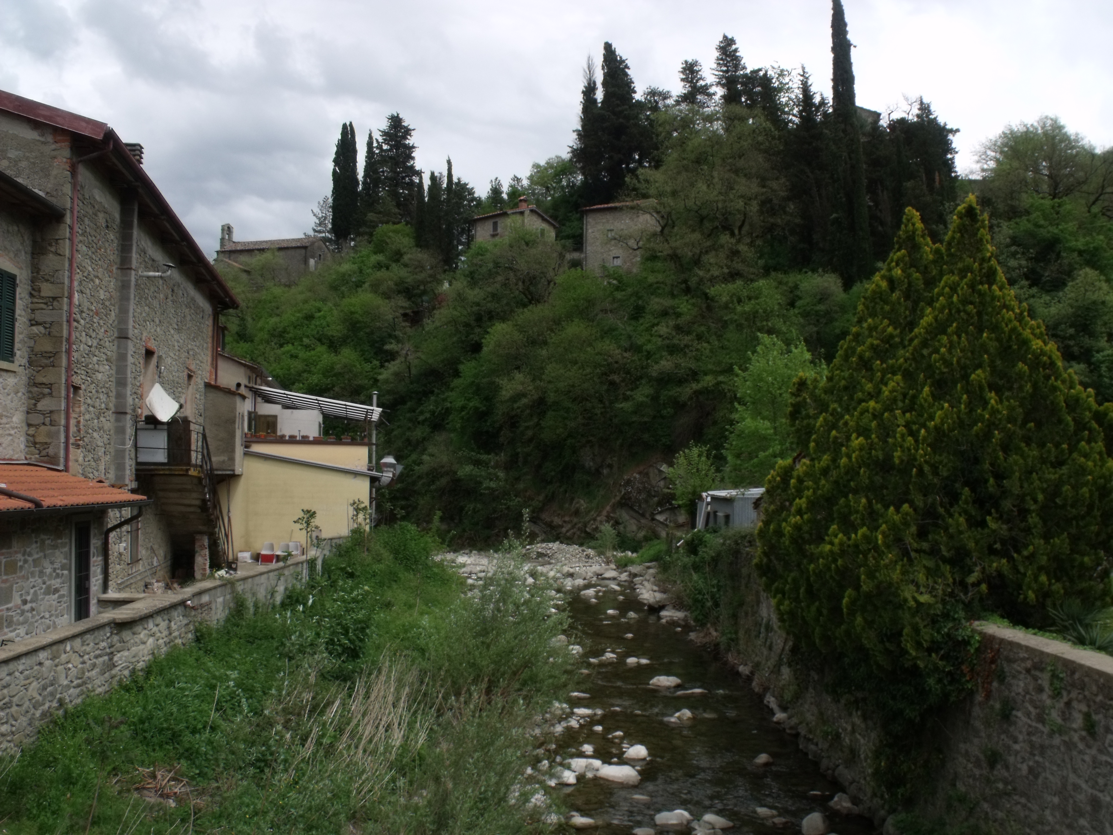 The Talla River and the Castellaccia in Talla, Casentino, Province of Arezzo, Tuscany, Italy